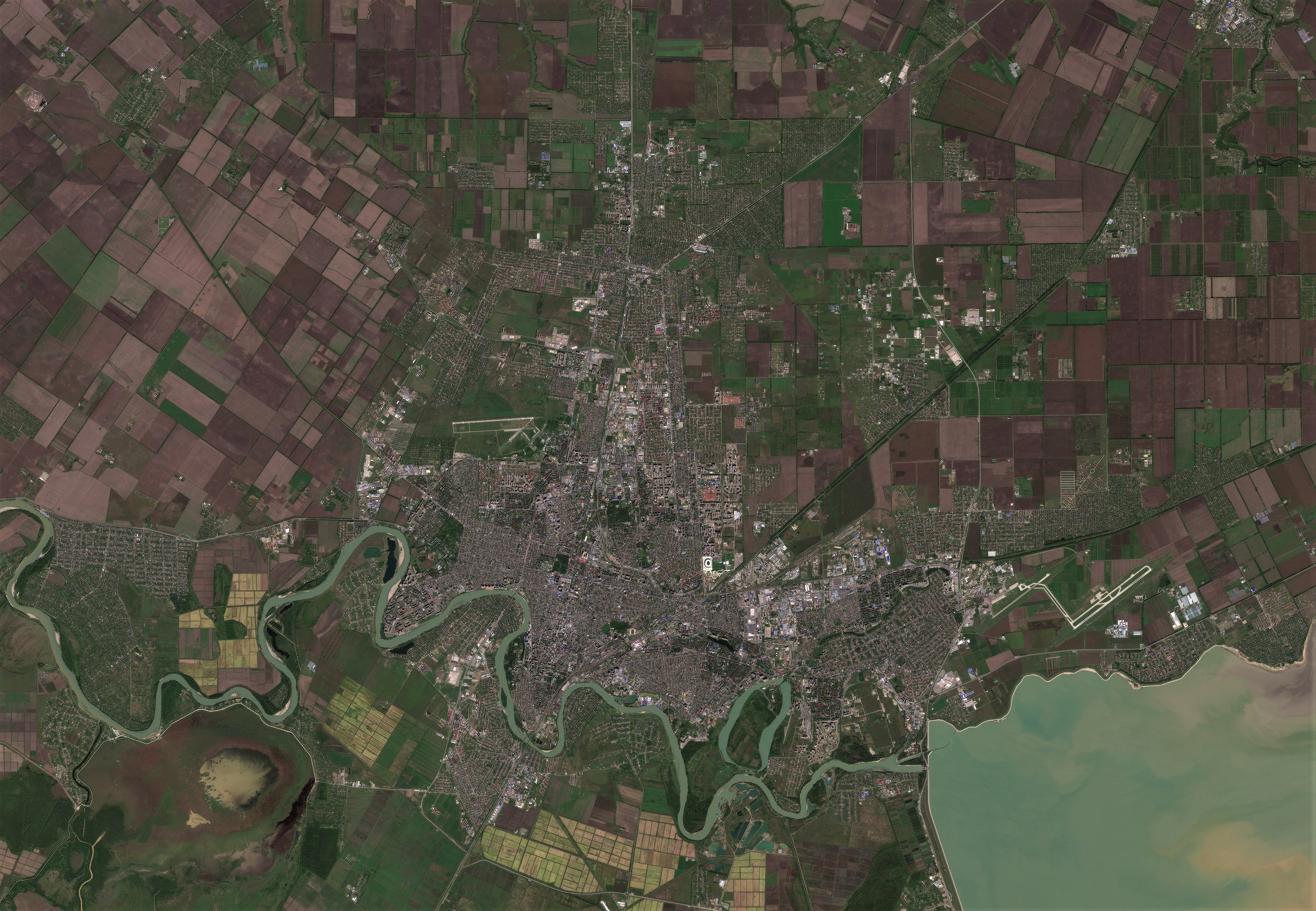 Krasnodar, Russia, near natural colors, Sentinel-2 satellite image 2018-SEP-18, resolution 10 m